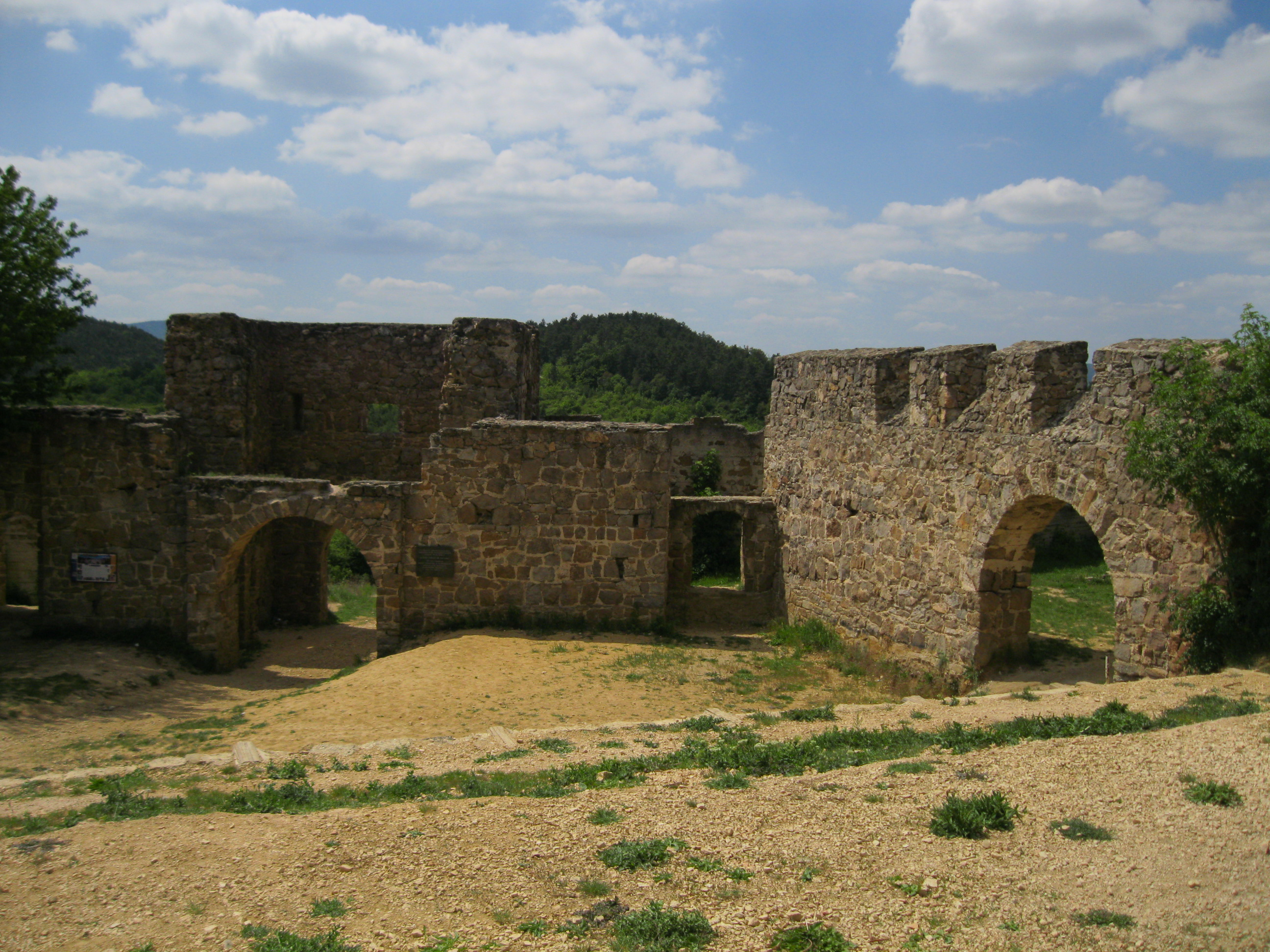 Castle of Eger in Pilisborosjenő